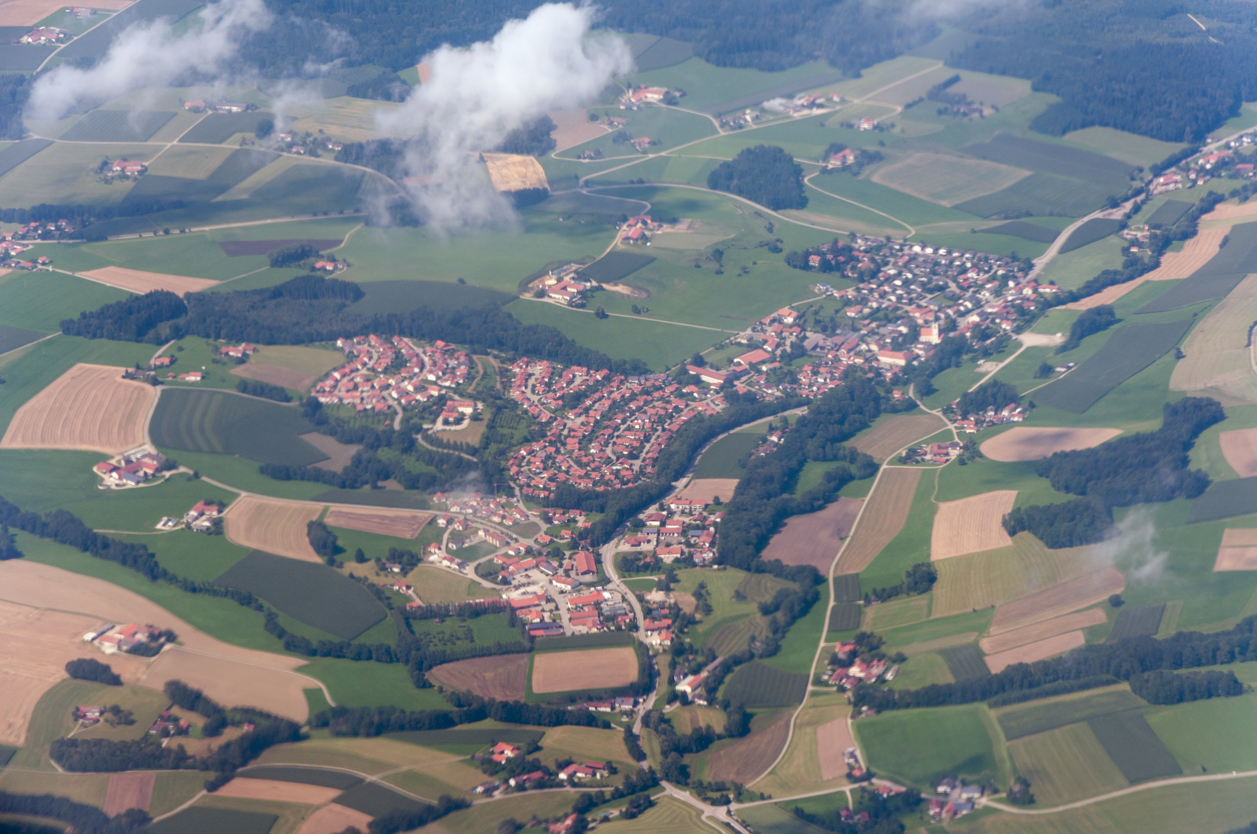 Germany, aerial impressions between Belgrade and Munich